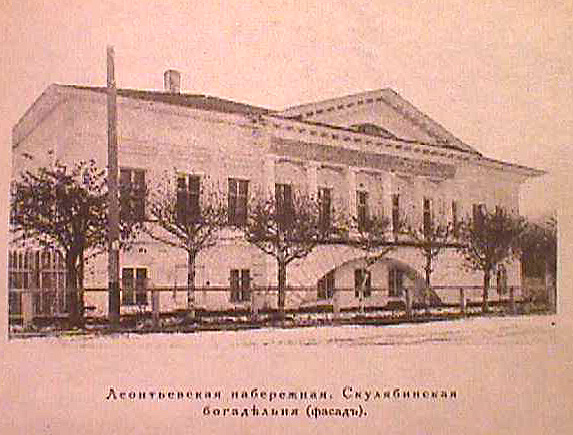 The Skulyabin's almshouse in Vologda.